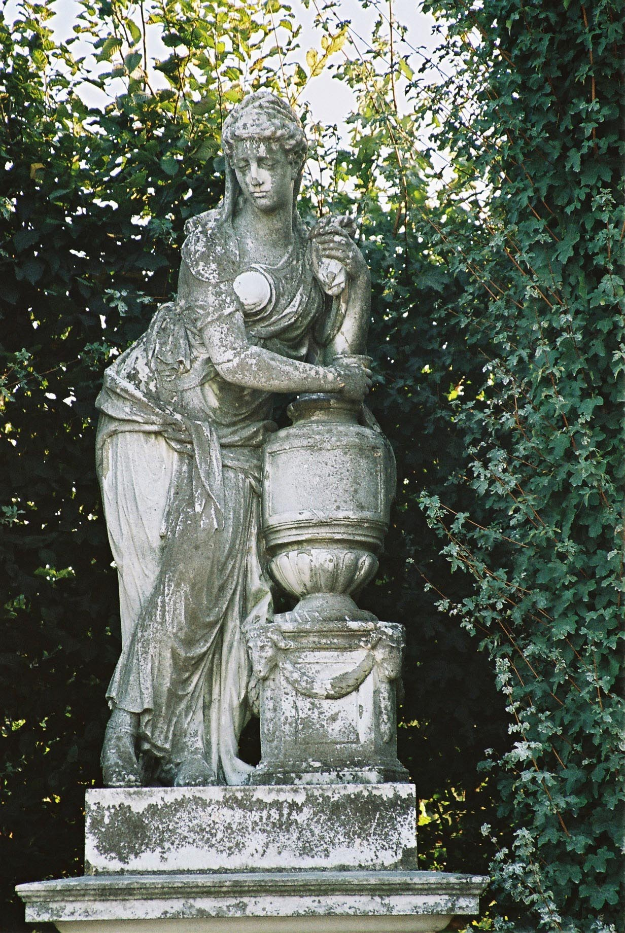 Artemisia_II_of_Caria, widow of king Mausolus.